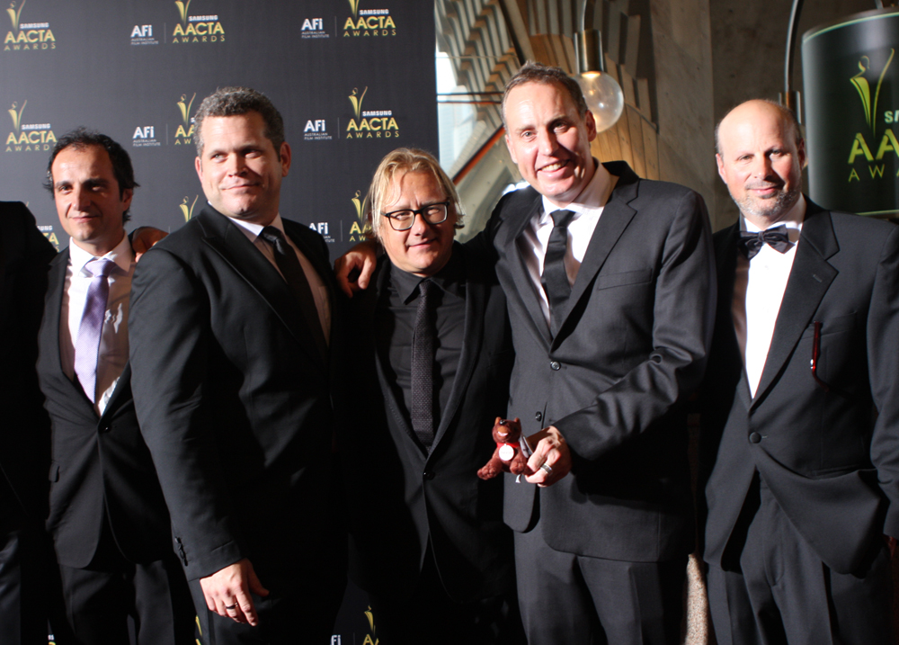 The 1st AACTA Awards were presented at the Sydney Opera House on 31 January 2012. The ceremony was preceded by a luncheon at the Westin Hotel in Sydney on 15 January 2012.